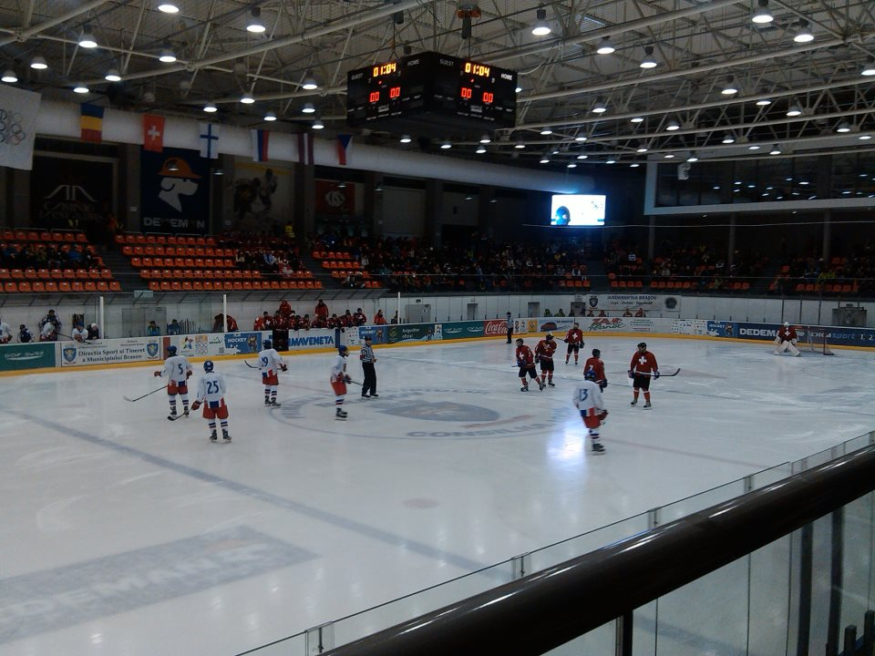 Brașov Olympic Ice Rink